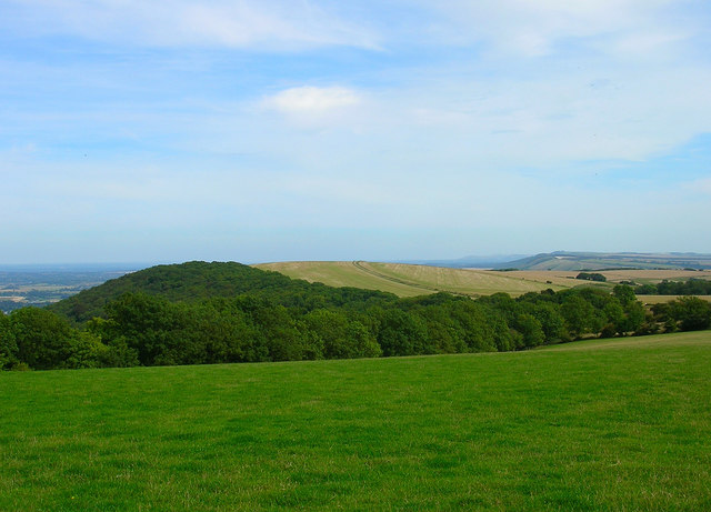 Bignor Hill. Taken from Glatting Beacon.